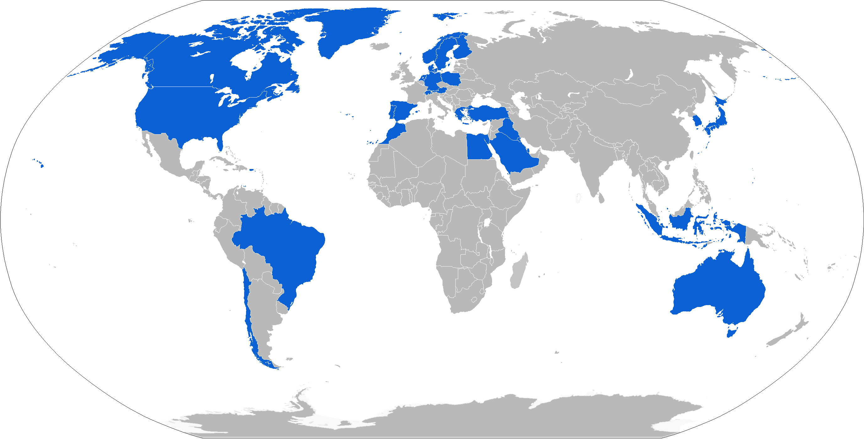 Map with Rheinmetall 120mm operators in blue with former operators in red